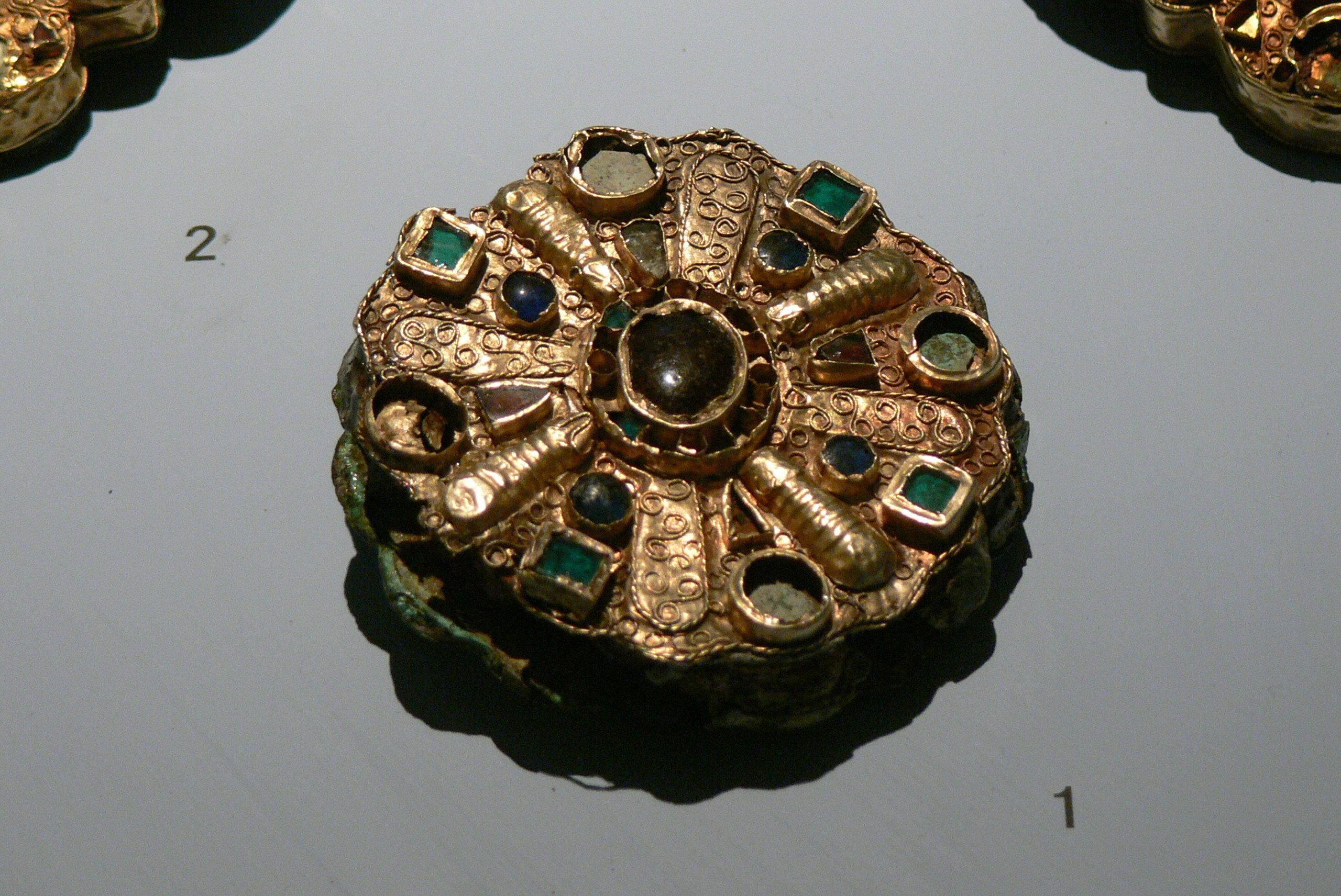 Merovingian brooch ( 7th century ), from Mertloch, Rhineland-Palatinate. German National Museum ( Nuremberg / Germany ).